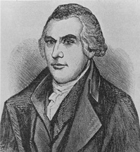 Image of Stephen R. Bradley taken from the US Congress Biographical Directory ([1]).